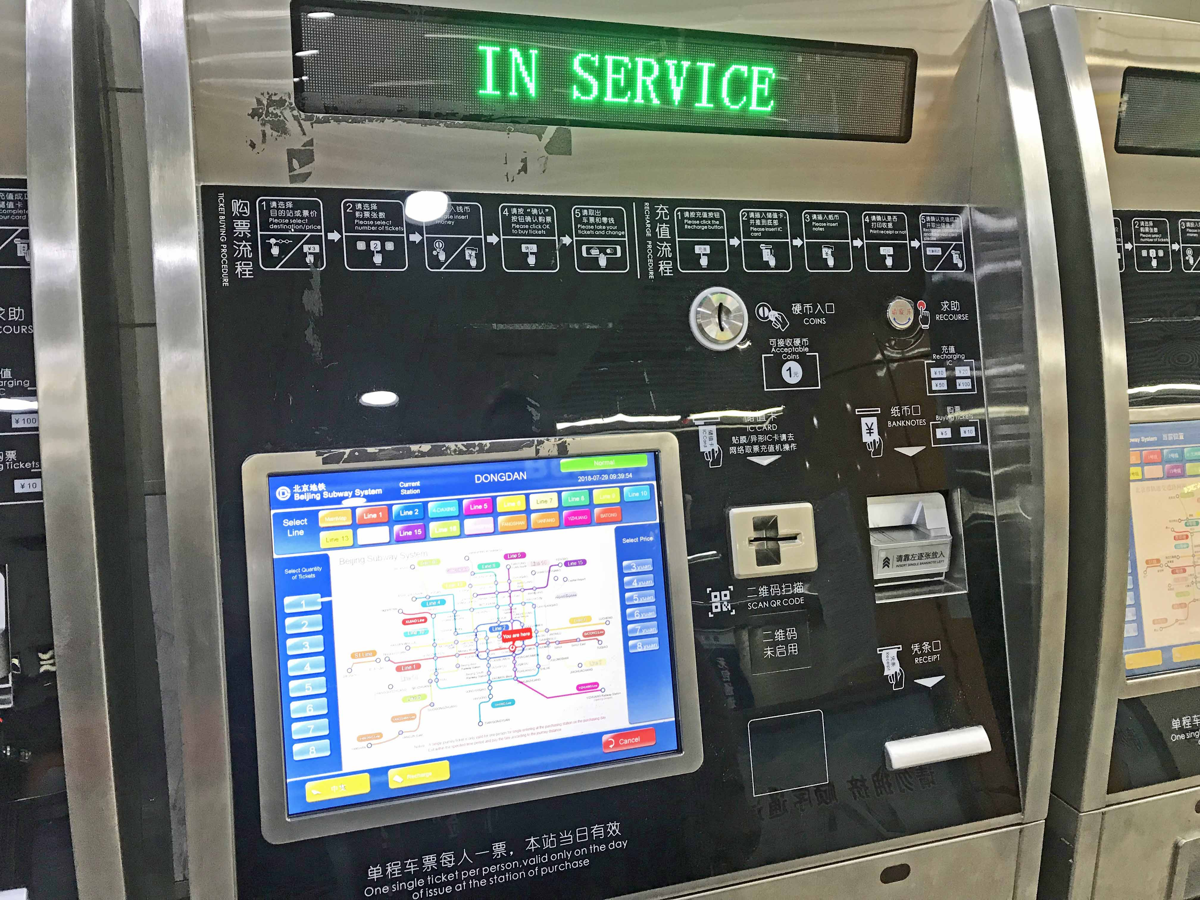 Ticketautomat, Ticketmaschine für Karten für die Metro in Peking. Ticket machine für Beijing Metro tickets. You're welcome to use this picture free of charge, as long as you follow the license terms. As a matter of courtesy a link (dofollow links are welcome!) to is much appreciated. Thank you! ————————–—–—–—–—–—–—–—–—–—–—–—–—–—–—– Du kannst dieses Bild gemäß der Lizenzbestimmungen unentgeltlich nutzen. Über eine Verlinkung (dofollow am liebsten) auf freuen wir uns. Danke!